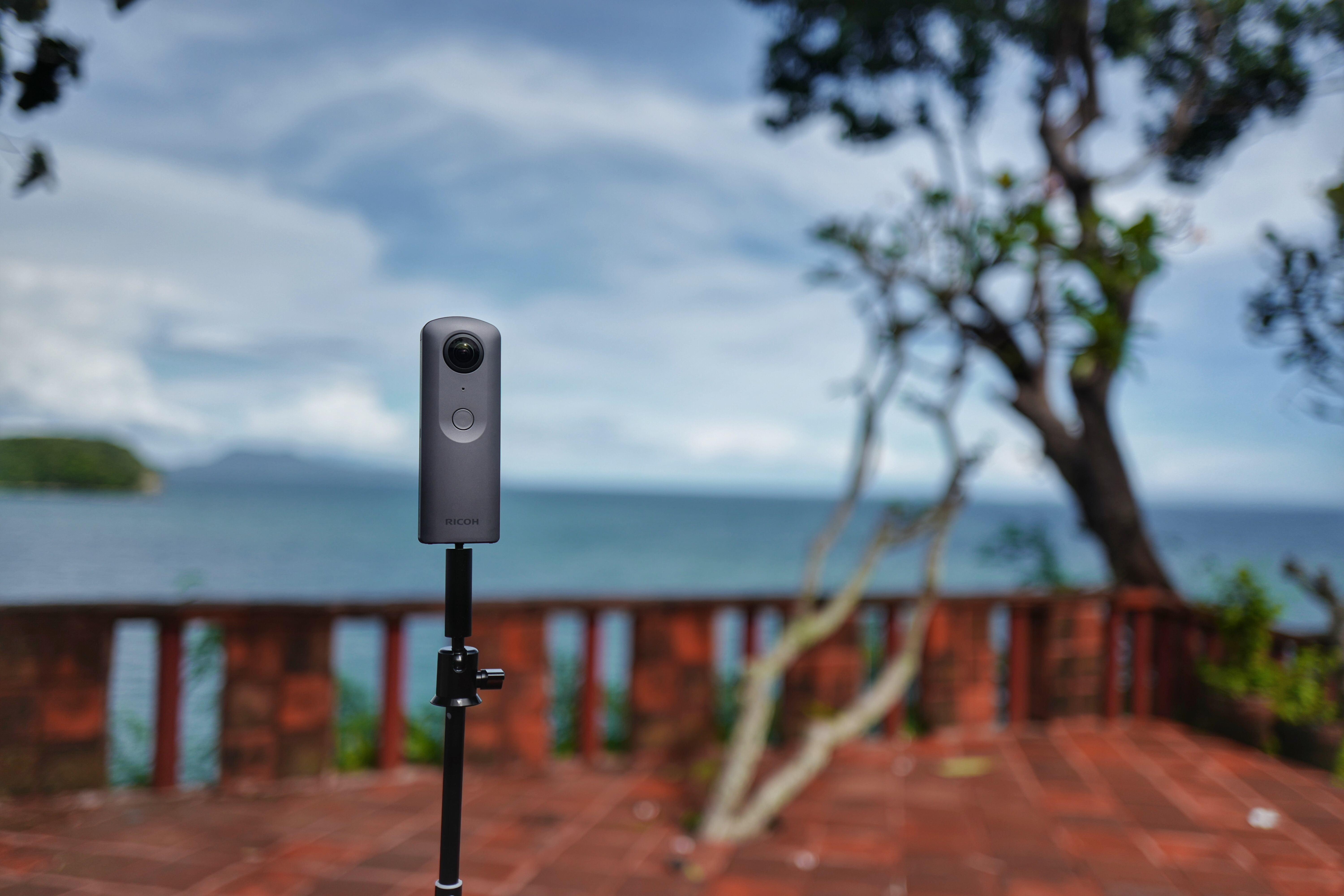 RICOH THETA V on tripod.